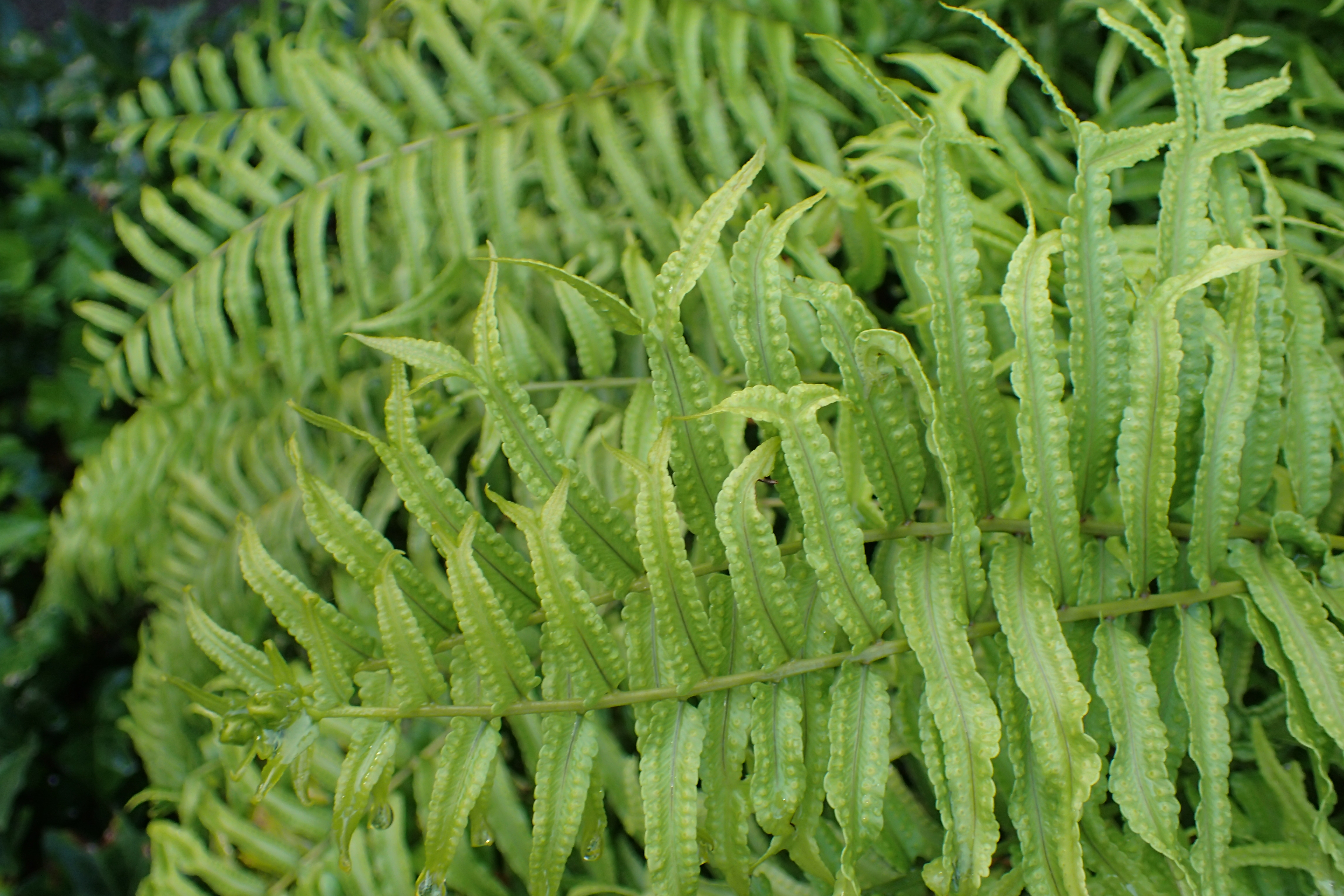 Nephrolepis biserrata in Jardín de Aclimatación de la Orotava